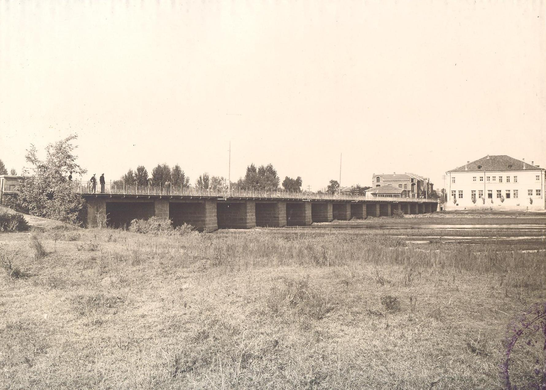 Bridges over the Maritsa in Pazardzhik, Bulgaria, 1928